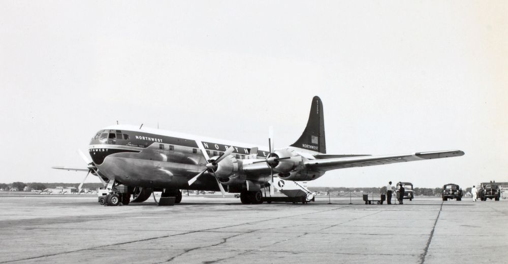 Catalog #: 15_001383 Title: Boeing 377 Stratocruiser ADDITIONAL INFORMATION: Boeing 377 Stratocruiser, Northwest Airlines Collection: Charles M. Daniels Collection Photo Album Name: U.S. Manufacturers I, A to Br Page #: 71 Tags: Boeing 377 Stratocruiser PUBLIC COMMONS.SOURCE INSTITUTION: San Diego Air and Space Museum Archive